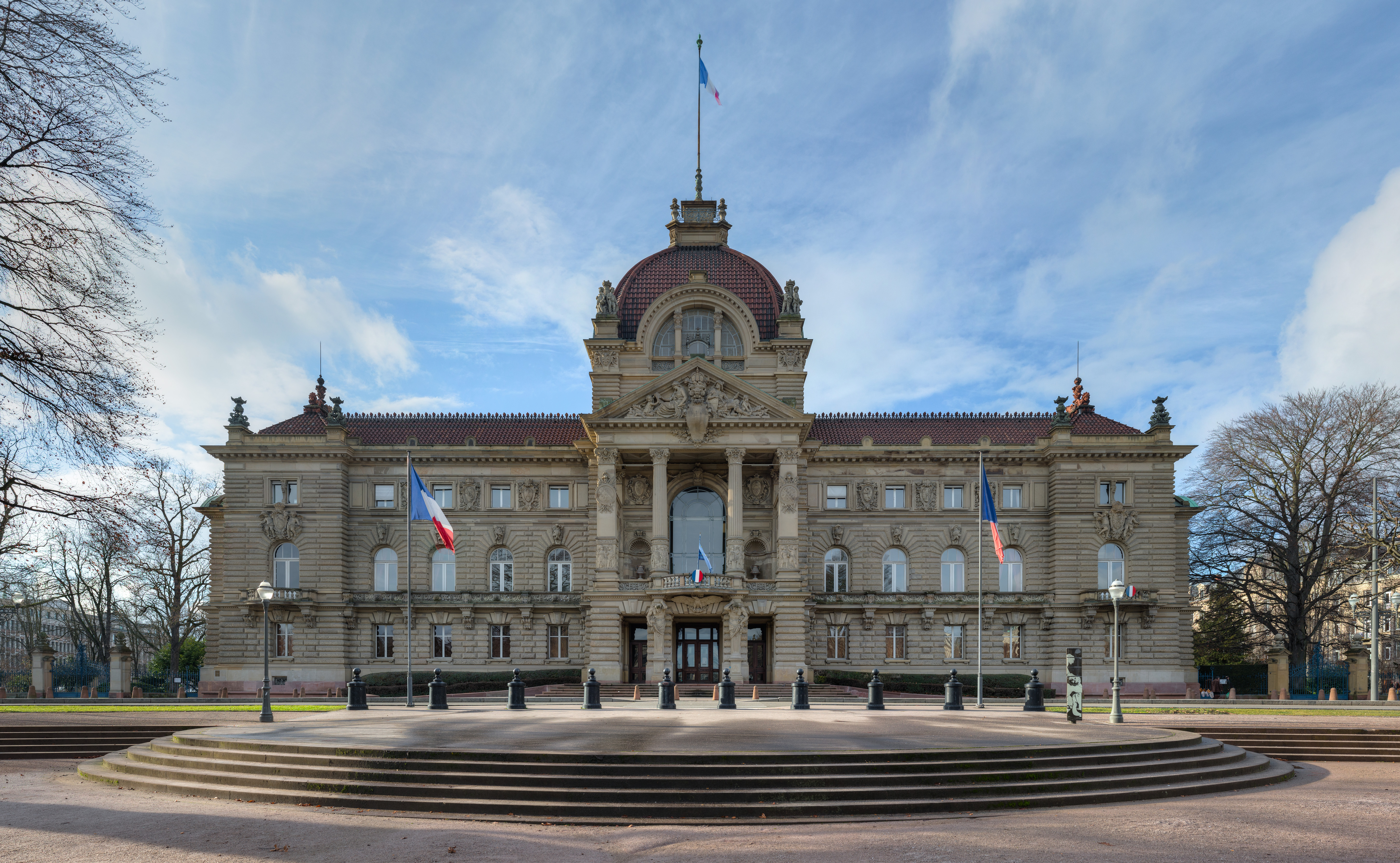 Palais du Rhin in Strasbourg, France.